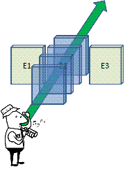 powerpoint hfu